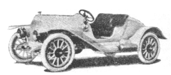 1914 Metropol Model C "Gentlemen's Roadster". Sports car with a 446,9 c.i (7323 cc), 90 HP long-stroke T-head engine, N.A.C.C. rating 28.9 HP. The car had a 115 in. (2921 mm) wheelbase. Few were built